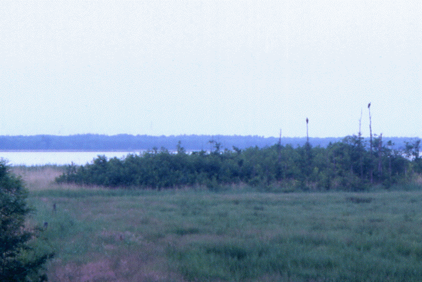 resting eagles at Achterwasser bay in Mecklenburg-Vorpommern, Germany